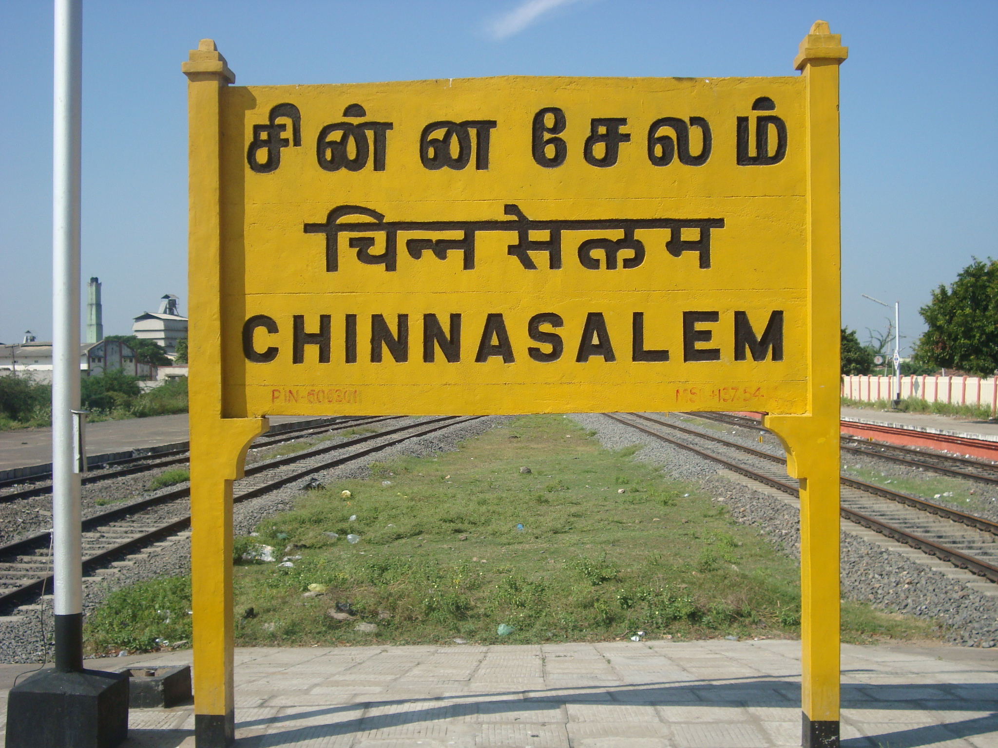 Chinnasalem railway station,Kallakurichi district